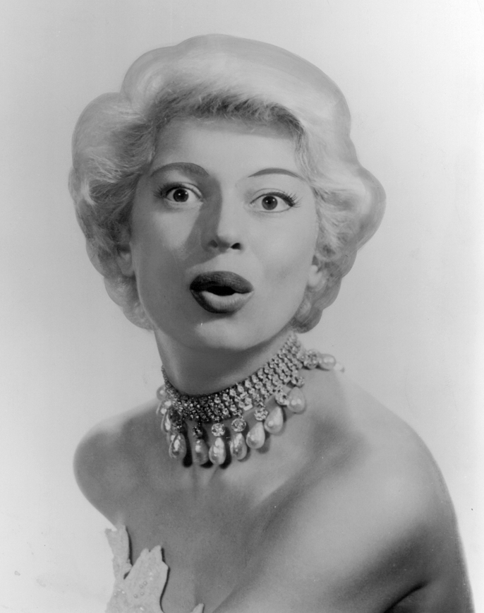 Carol Channing, 1960